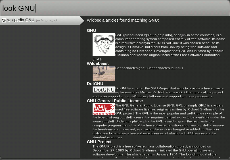 Ubiquity 0.2pre14 running on Debian.